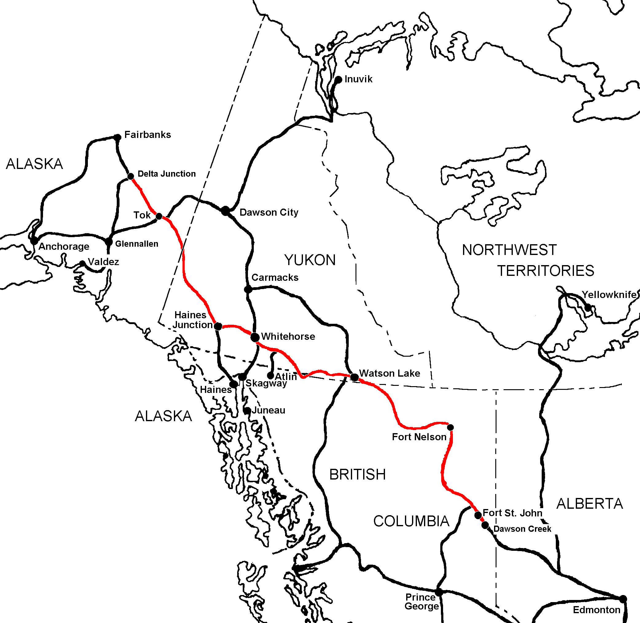 Map of Alaska Highway (in red) showing surrounding main highways and towns.